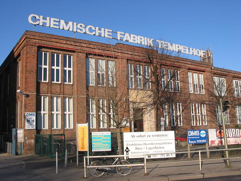 Listed factorie Chemische Fabrik Tempelhof (today CT Arzneimittel at another location) an der Oberlandstraße (street) in Berlin-Tempelhof . Built between 1918 and 1923 for the Norddeutsche KühlerFabrik AG by the architect Jean Krämer.